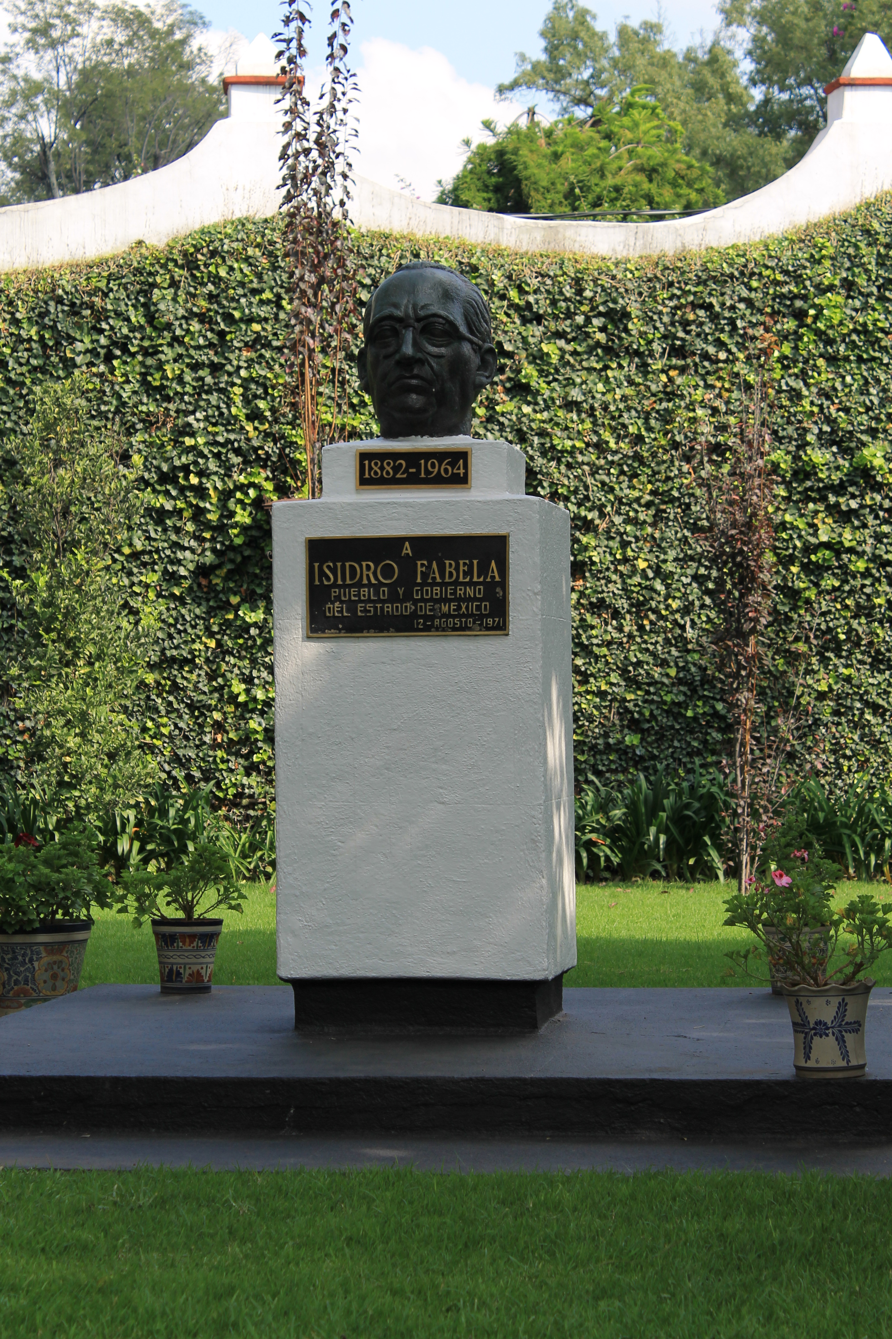 Escultura en honor de Isidro Fabela, escritor, diplomático, académico mexicano y antiguo propietario de la Casa del Risco. Localizada en el jardín del Centro Cultural Isidro Fabela, San Ángel, México, Distrito Federal.